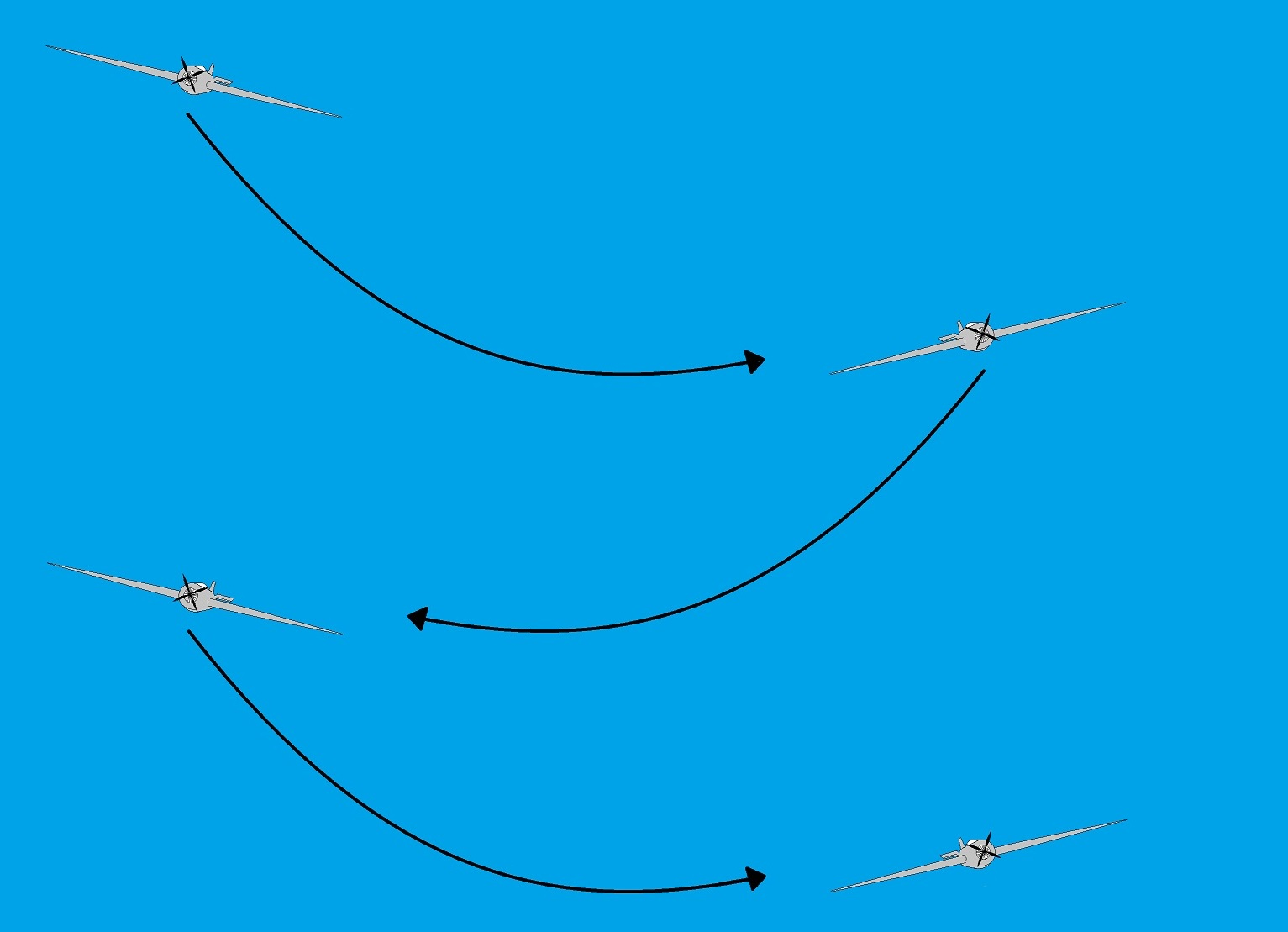 A diagram of the falling-leaf maneuver, which is a type of controlled stall (the aircraft is literally falling like a leaf).